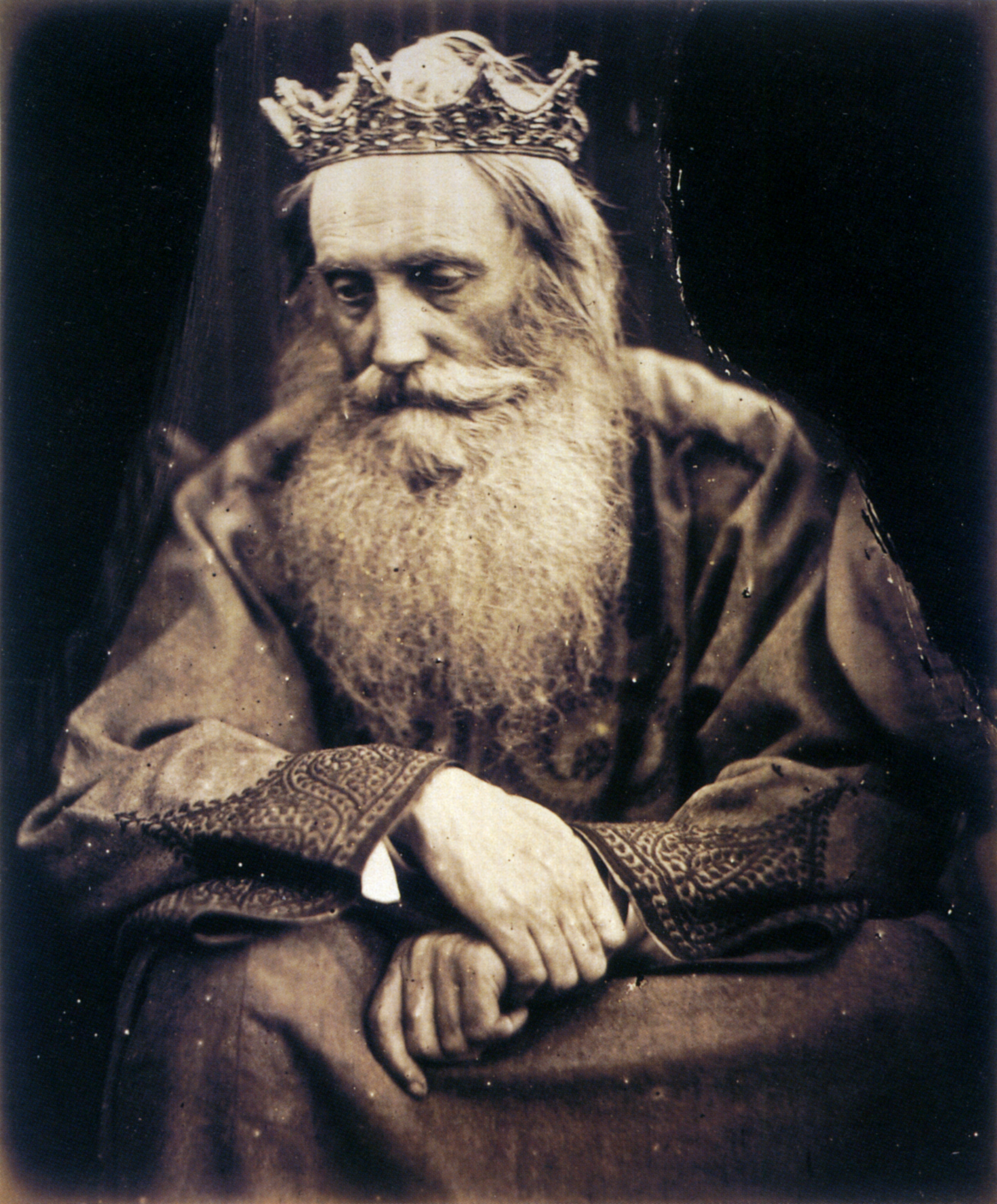 Study of King David. Depicts Sir Henry Taylor. Albumen print, 272 x 225mm (10 3/4 x 8 7/8").